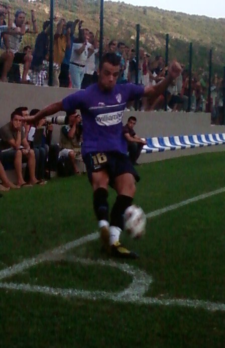 Edu Ramos during a summer match between Málaga CF and UD Estepona in 2010 in Benahavís, Málaga.